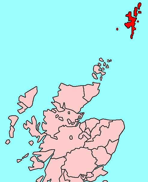 Shetland